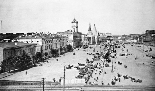 Kalanchevskaya (Komspmolskaya) Square and Nikolaevsky (Leningradsky) snd Yaroslavsky Rail Terminals, Moscow, 1900s